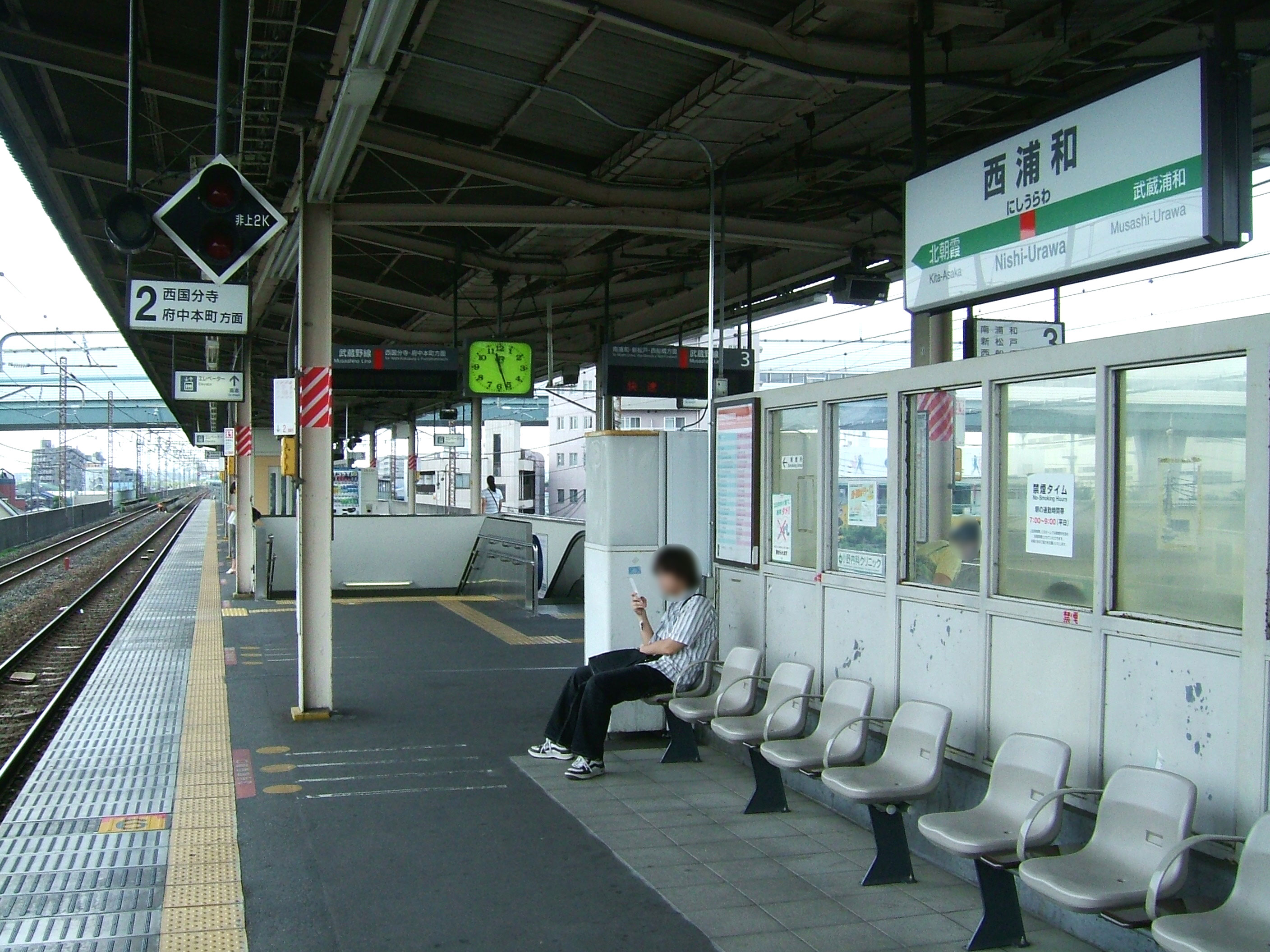 View of the platforms at Nishi-Urawa Station on the Musashino Line looking west